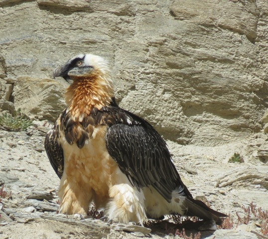 Lammergeier the bearded vulture in Puga valley of east Ladakh.